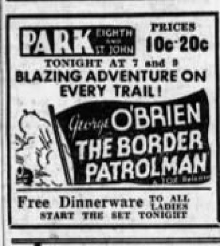 Park Theater advertisement for the American western film The Border Patrolman (1936) - 19 Oct. 1936 Morning Call, Allentown PA